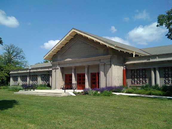 Marquette Park Field House, Chicago, Illinois.